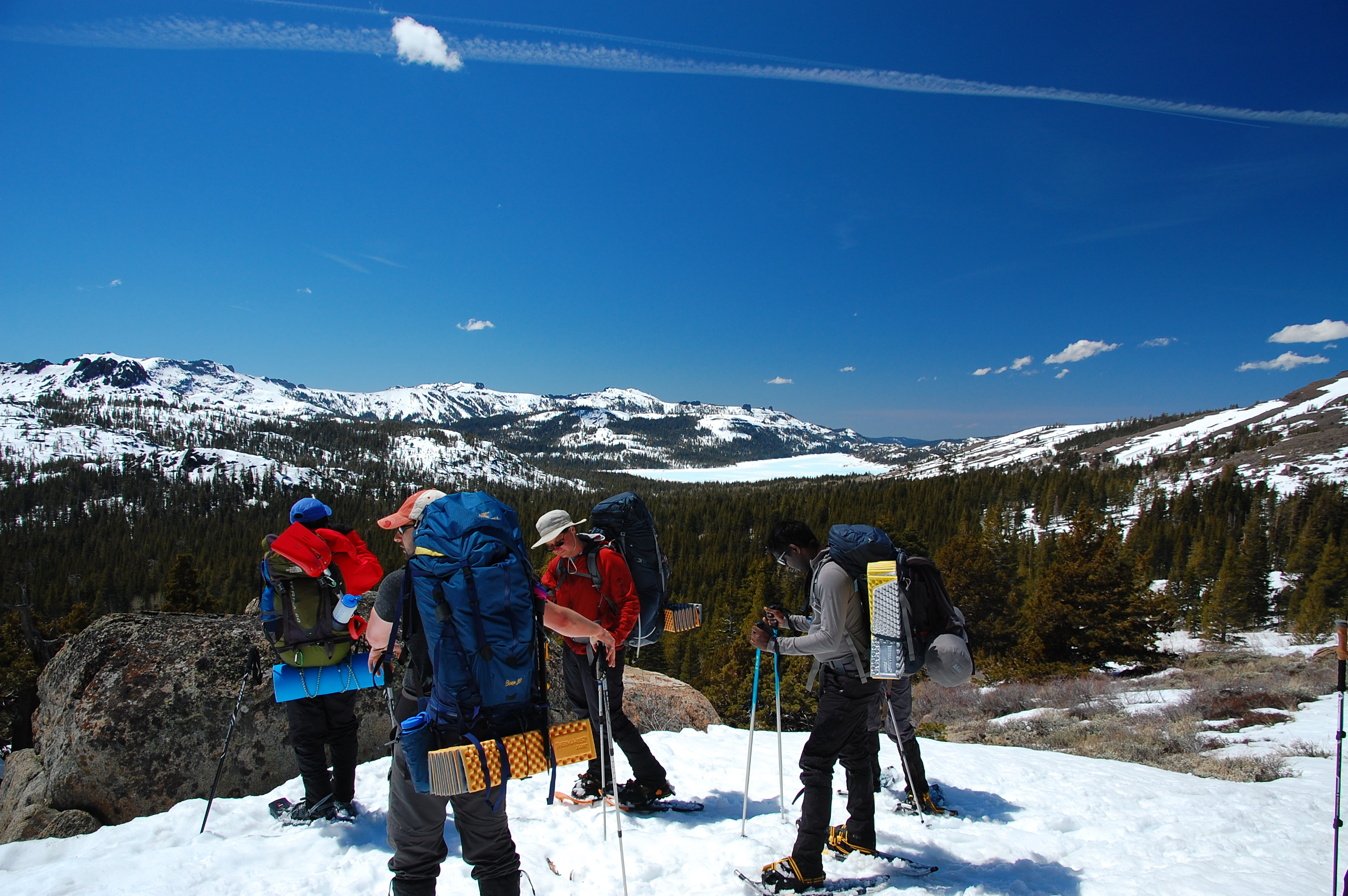 Party snowshoeing in Kirkwood Mountain Resort, facing northeast towards Caples Lake, Alpine County, California.